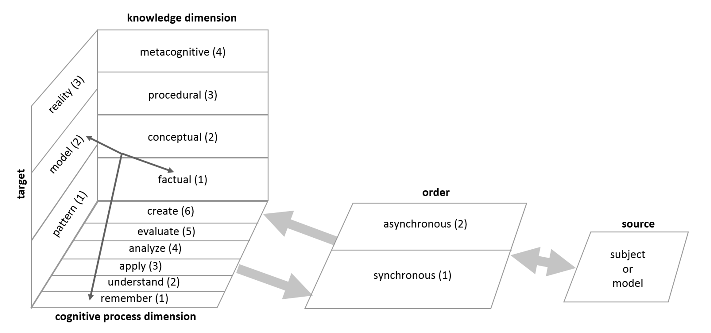 In these often complex situations (action-oriented), the analysis of the interactions that take place provide a starting point for the evaluation of learning progress during the session. In this context, a cognitive-oriented interaction taxonomy was developed for the classification of the interactions, in which there existed a primary requirement for the subject to deal with the interaction at hand utilising a particular cognitive ability. For example, the subject was to solve a multiple-choice-question based on the contents of a slide previously shown by selecting one of the items. In order to do so, the subject must interact synchronously with a pattern that requires to remember factual knowledge in order to deal with the interaction.